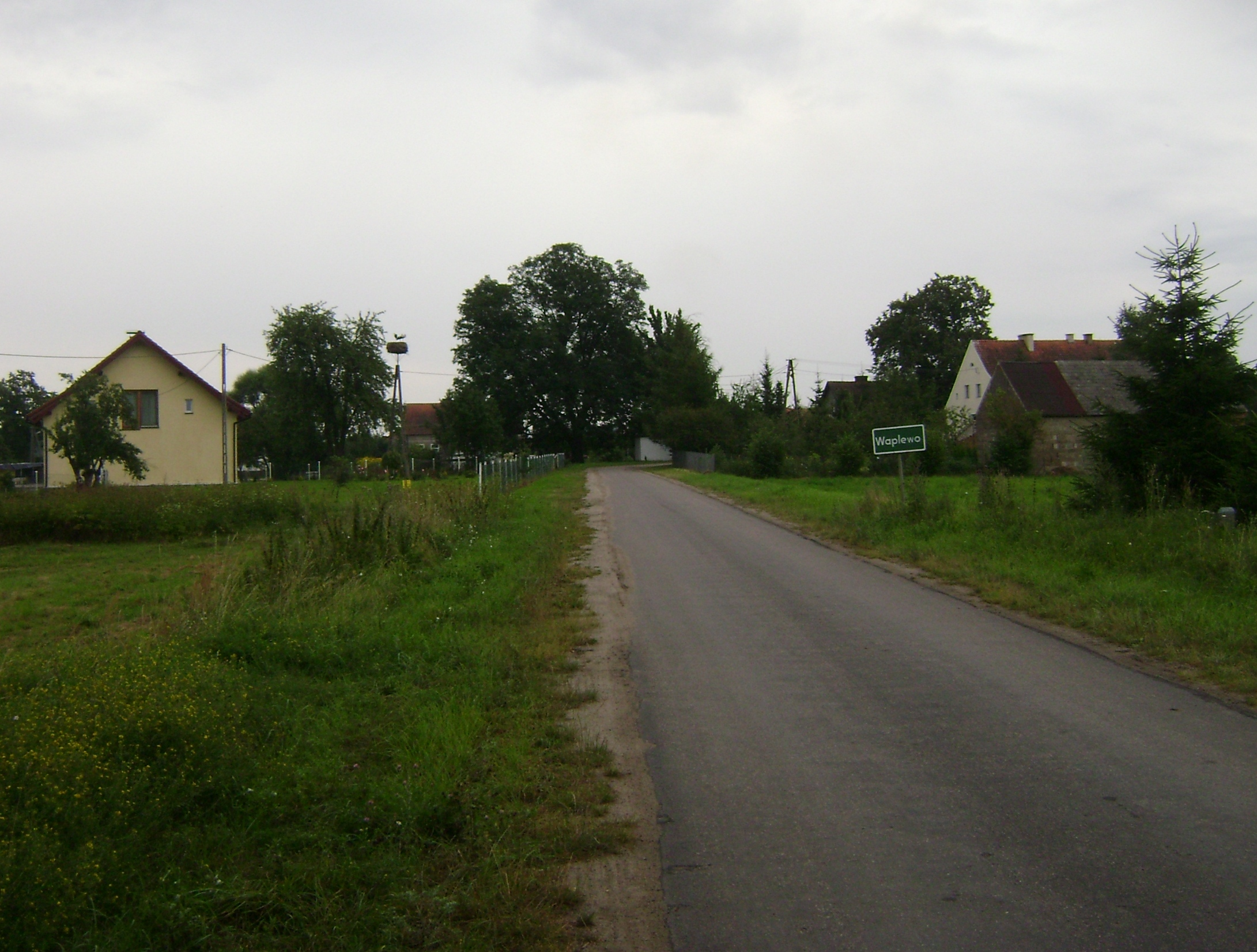 Poland. Gmina Pasym. Waplewo Village